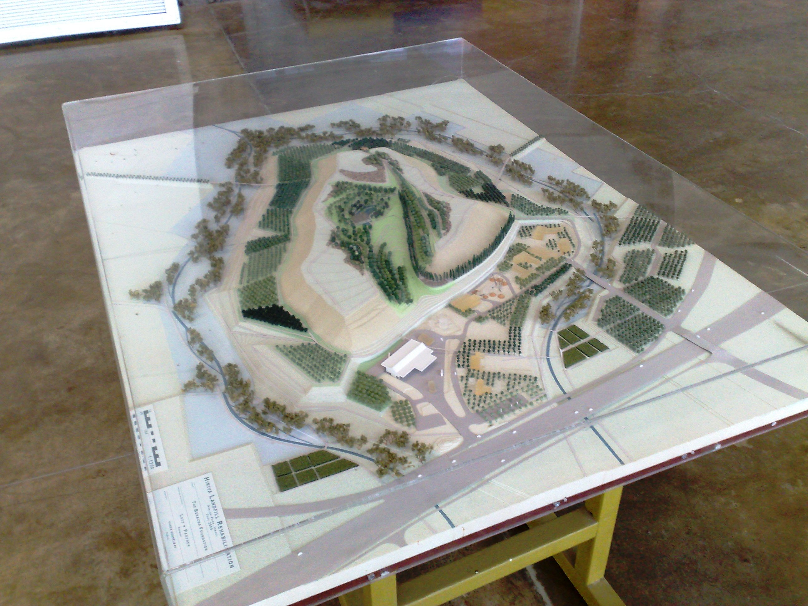 Model of Park Ayalon Israel